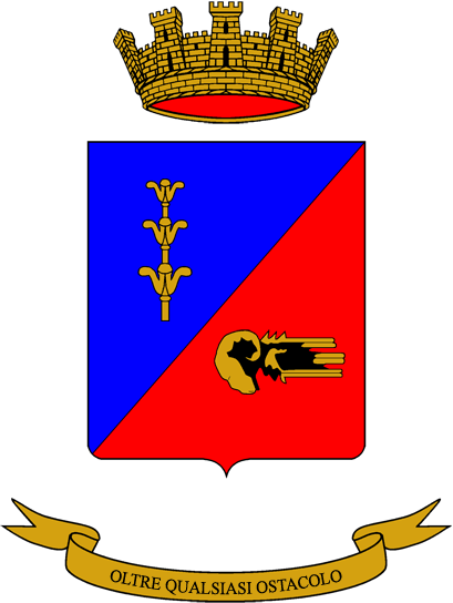 Coat of Arms of the 13° Armoured Battalion; Italian Army